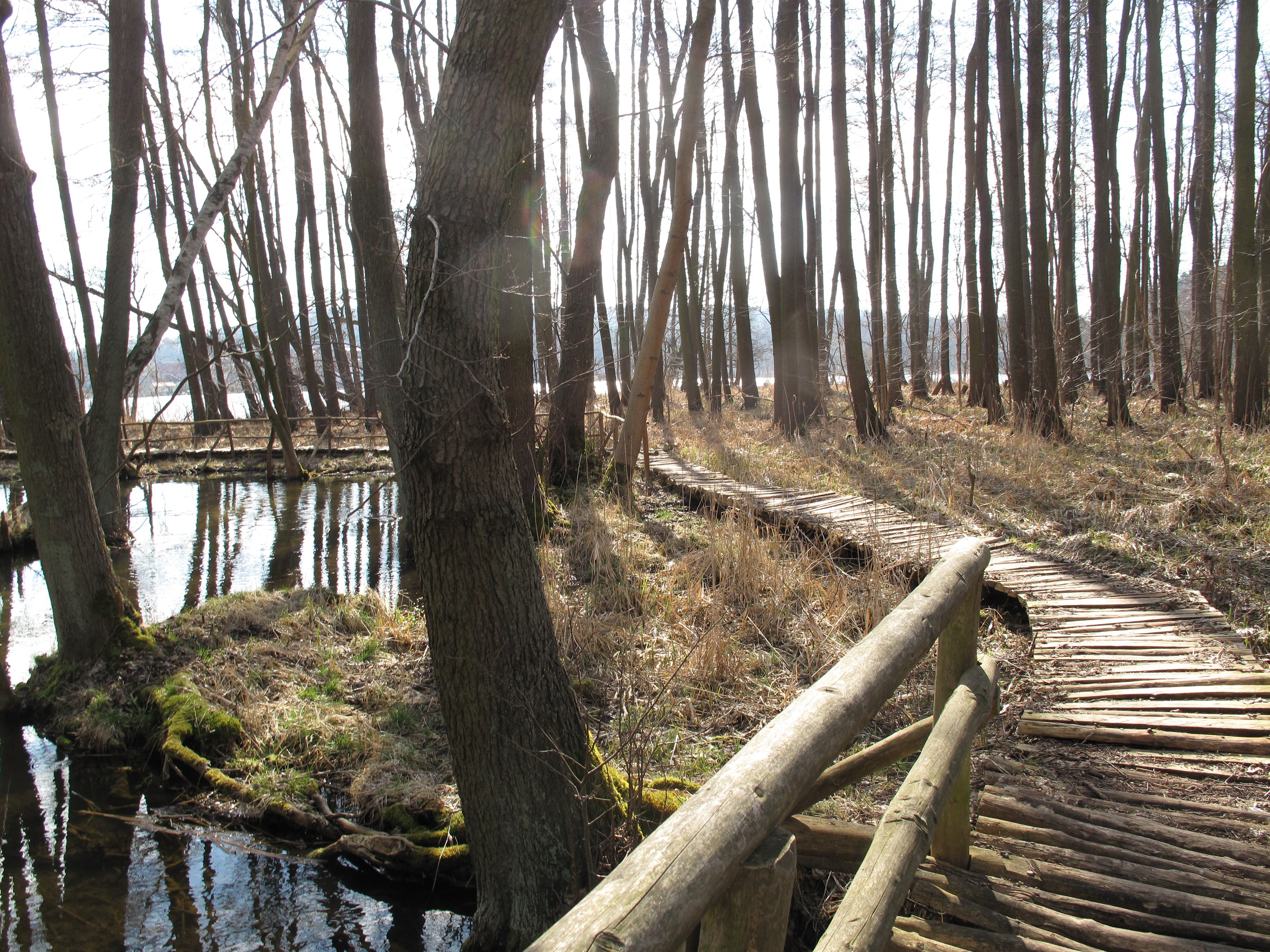 Estuary of the Werderfließ to the Buckowsee and corduroy road (Gummiweg). The Werderfließ is an around 400 meters long stream in Buckow, District Märkisch-Oderland, Brandenburg, Germany. It is situated in the hill country „Märkische Schweiz“ and in the Märkische Schweiz Nature Park. The stream is the discharge of the Schermützelsee (lake) and is flowing into the Buckowsee (lake), which is crossed by the river Stobber. The Stobber flows into the Oder. The Werderfließ is mostly sorrounded by a species-rich black alder-carr.